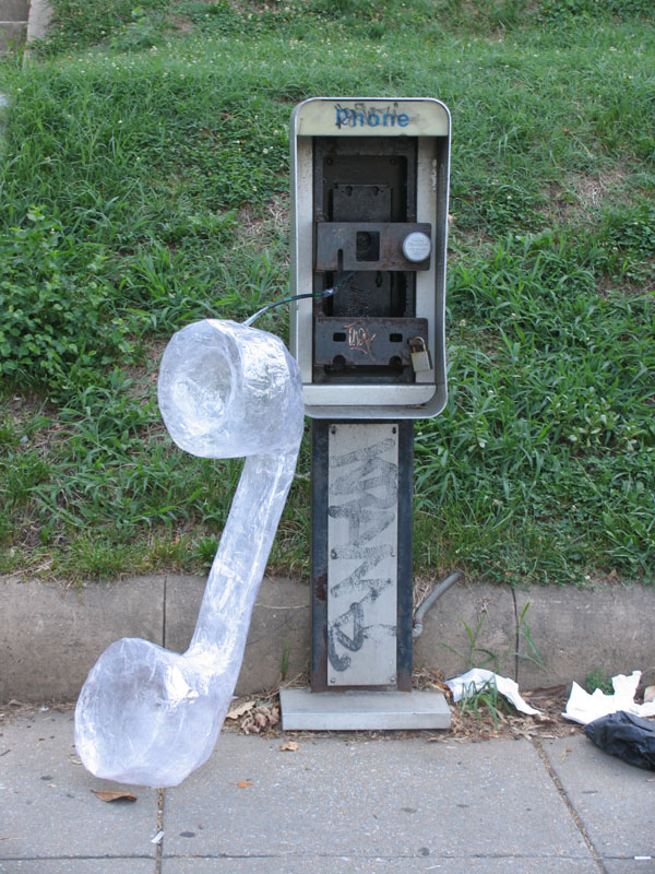 Mark Jenkins street installation "Call Waiting"